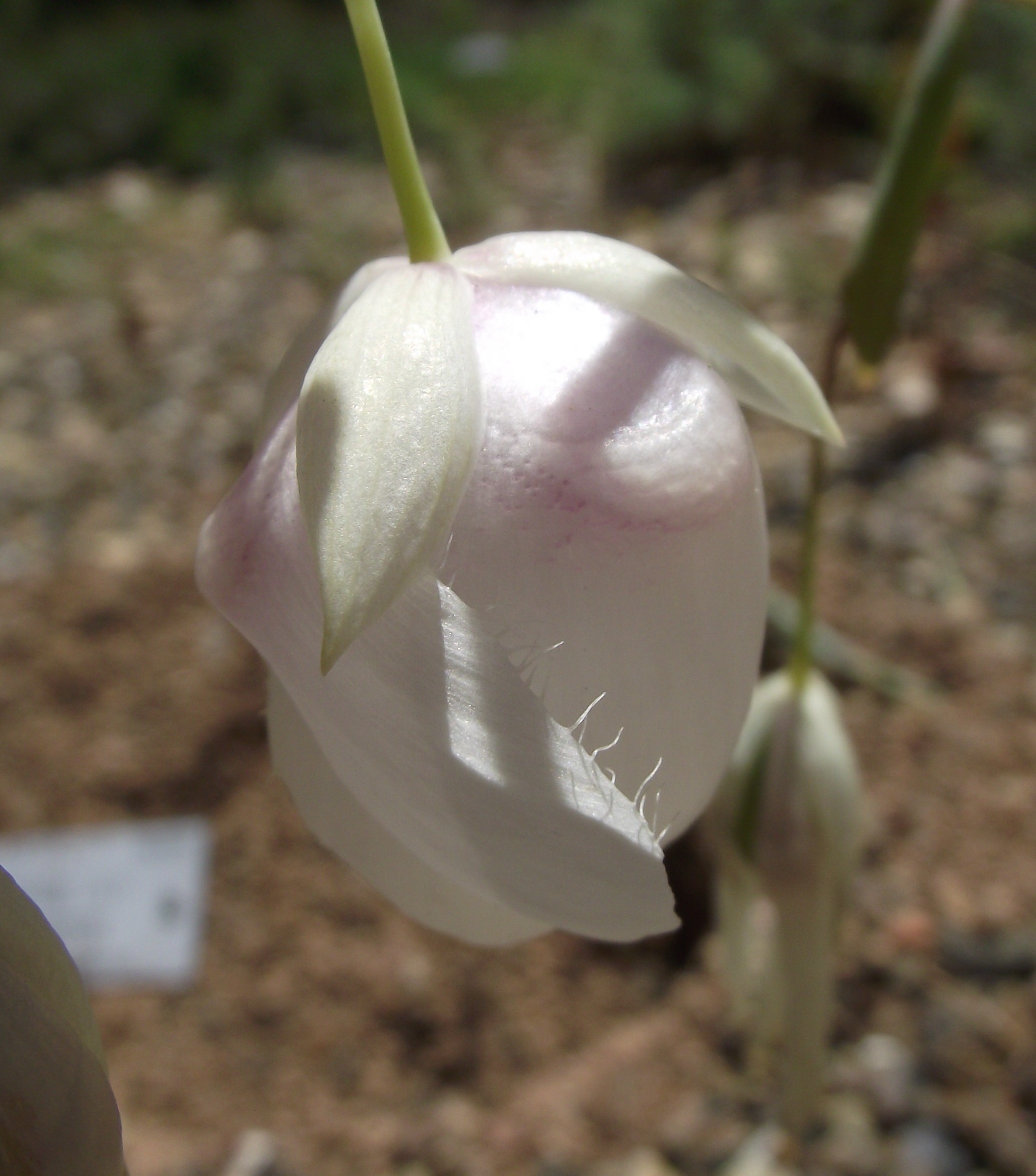 Calochortus albus at the UC Botanical Garden, Berkeley, California, USA. Identified by sign.